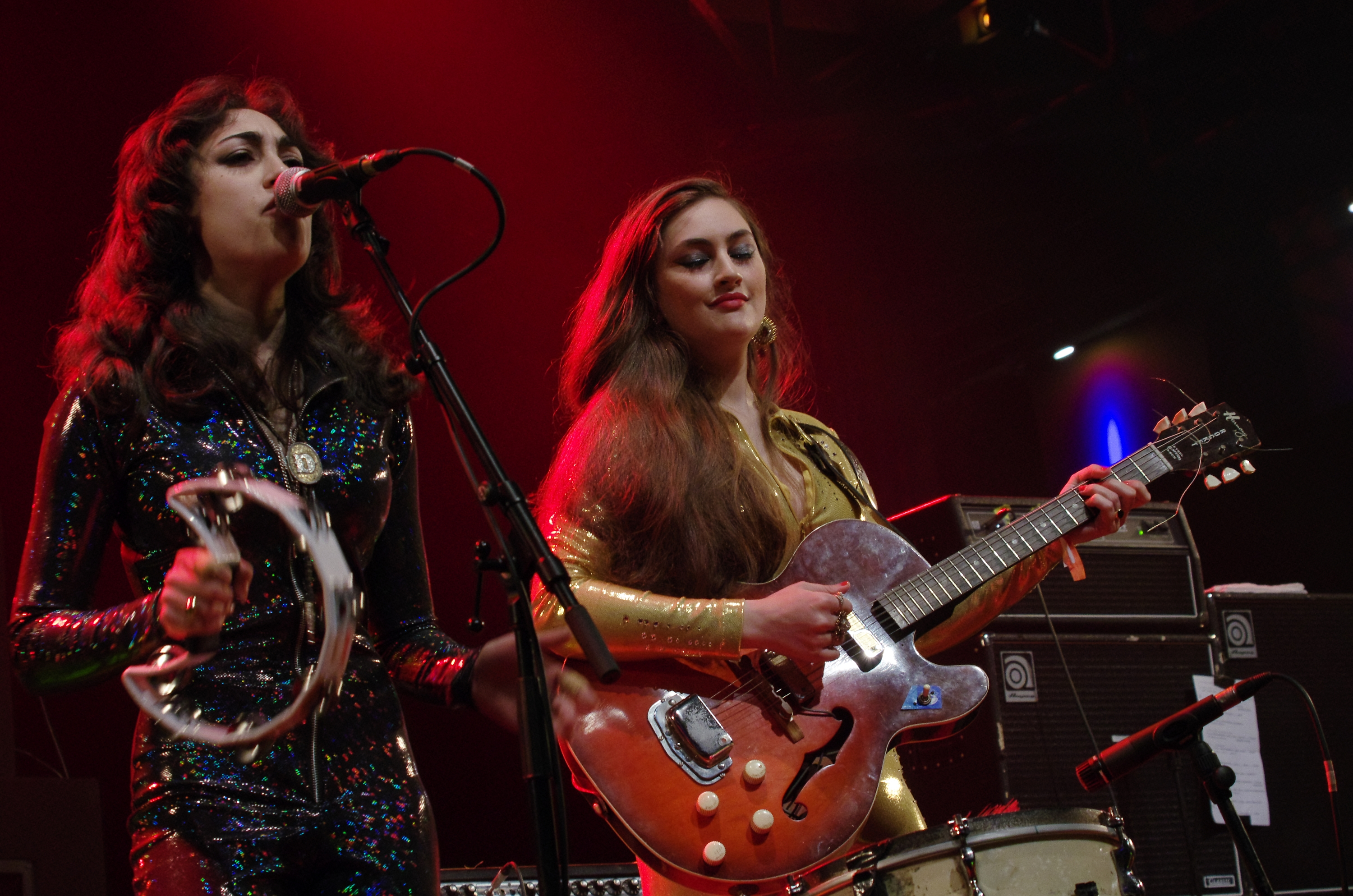 Kitty, Daisy & Lewis at Traumzeit Festival Duisburg 2014. Daisy (left), Kitty (with Guitar)